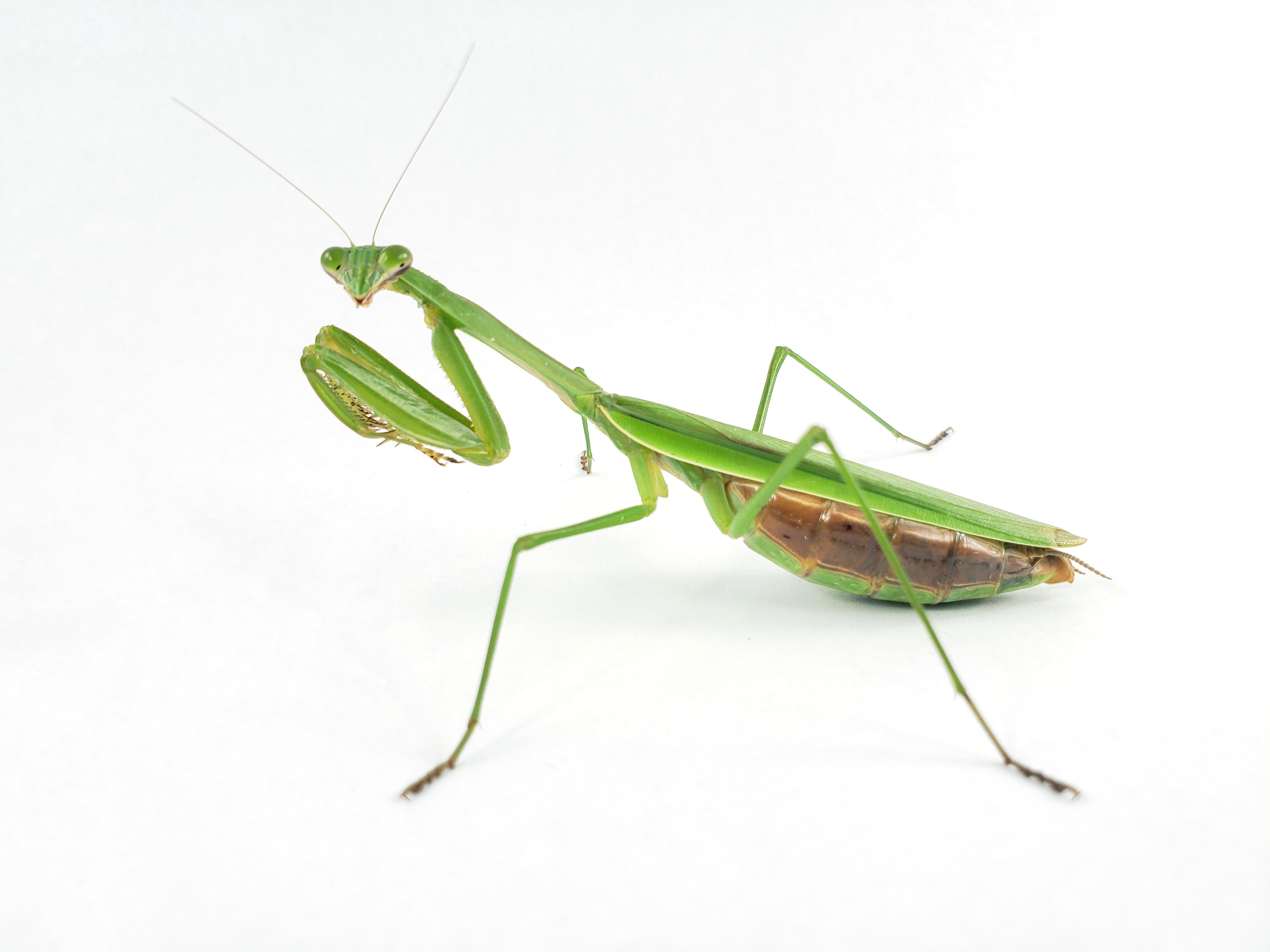 Green pregnant female Chinese mantis (Tenodera sinensis)